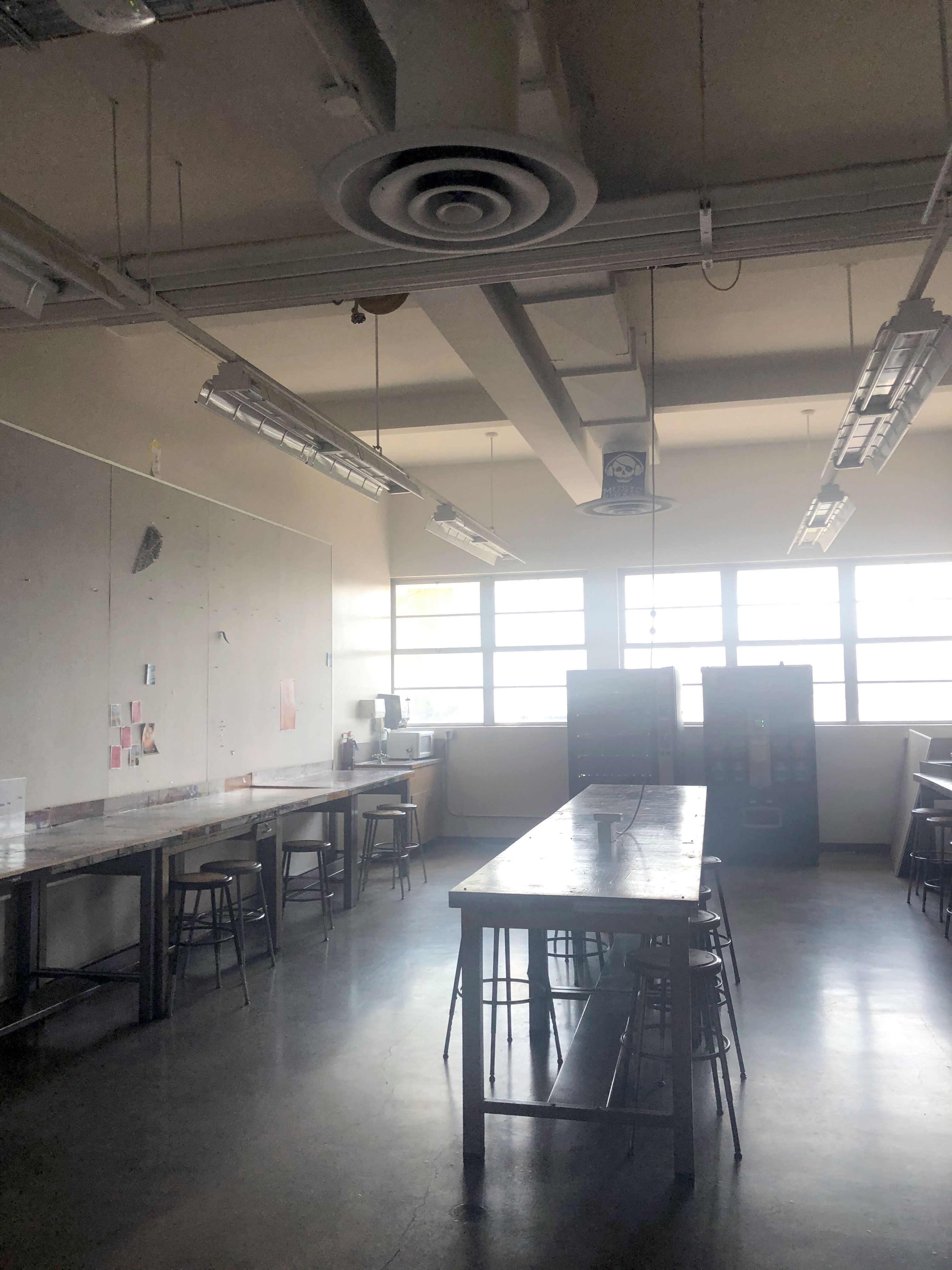 The Art Department Student Lounge is host to all Art History and Visual Communication Design students, with access 24/7. The tables were designed and built by Assistant Professor Kevin Moore, and Assistant Professor Anthony Acock.